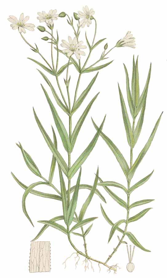 Illustration of Stellaria Holostea Linné